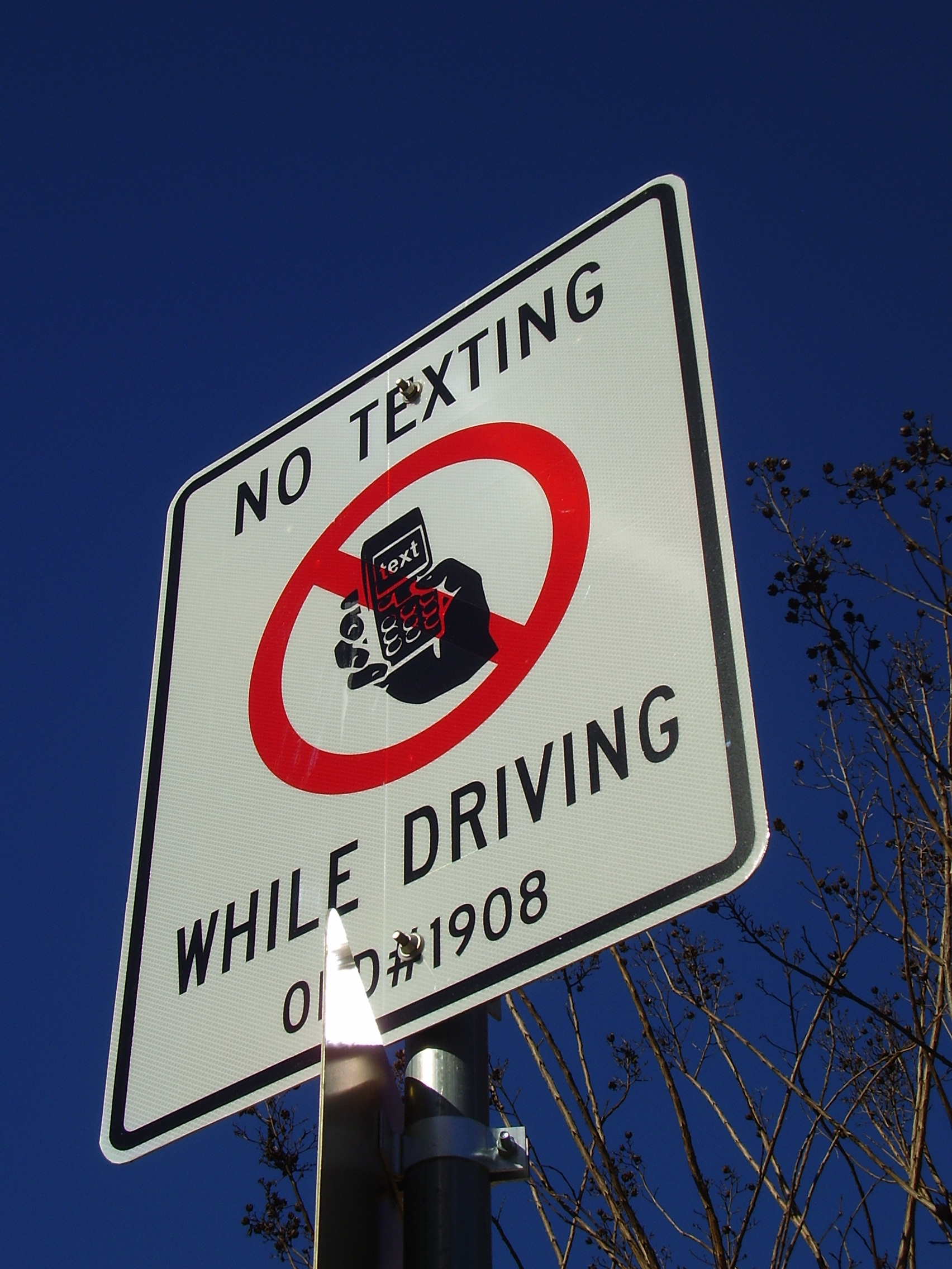 A sign that states "No Texting While Driving" in West University Place, Texas